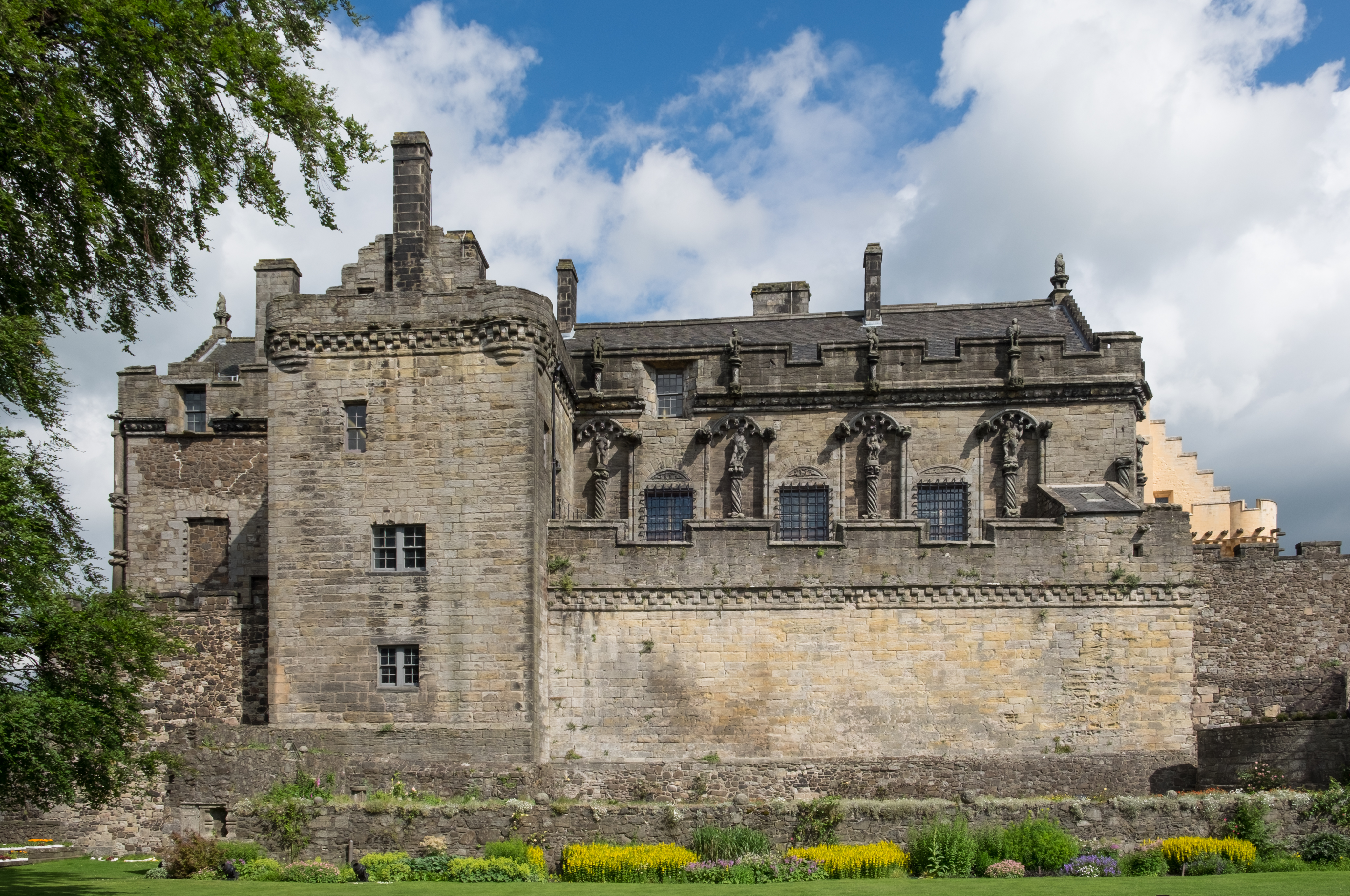 The Royal Palace in Stirling Castle viewed from the Queen Anne Garden.